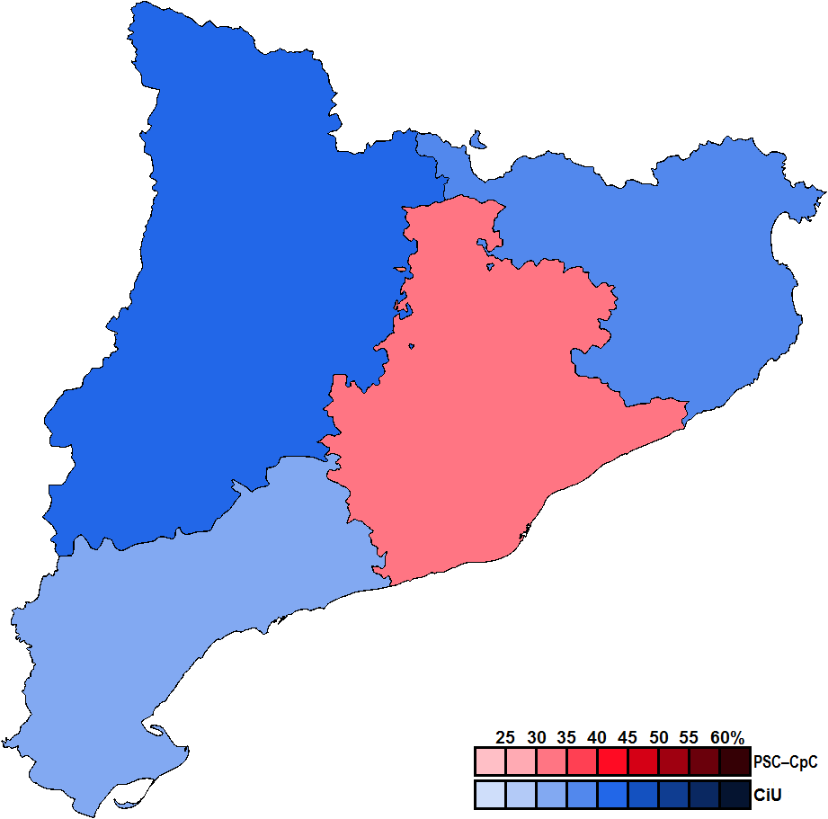 Provincial results for the 2003 Catalan regional election.